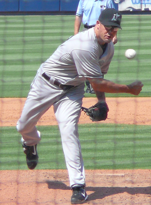 Please attribute photo with author's name if used somewhere other than Wikipedia. 19:39, 3 August 2008 . . Chrisjnelson . . 492×670 (327 KB)